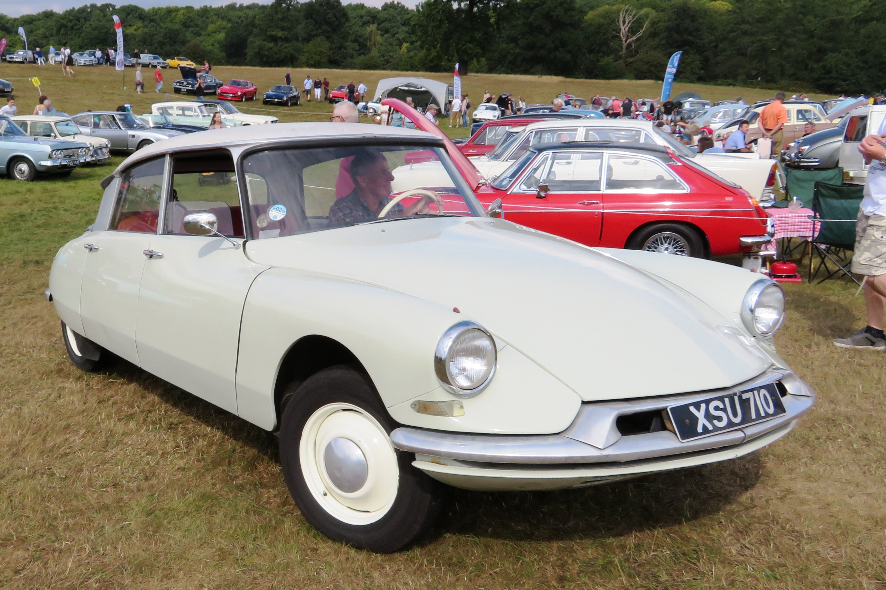 Citroen ID19 or DS19